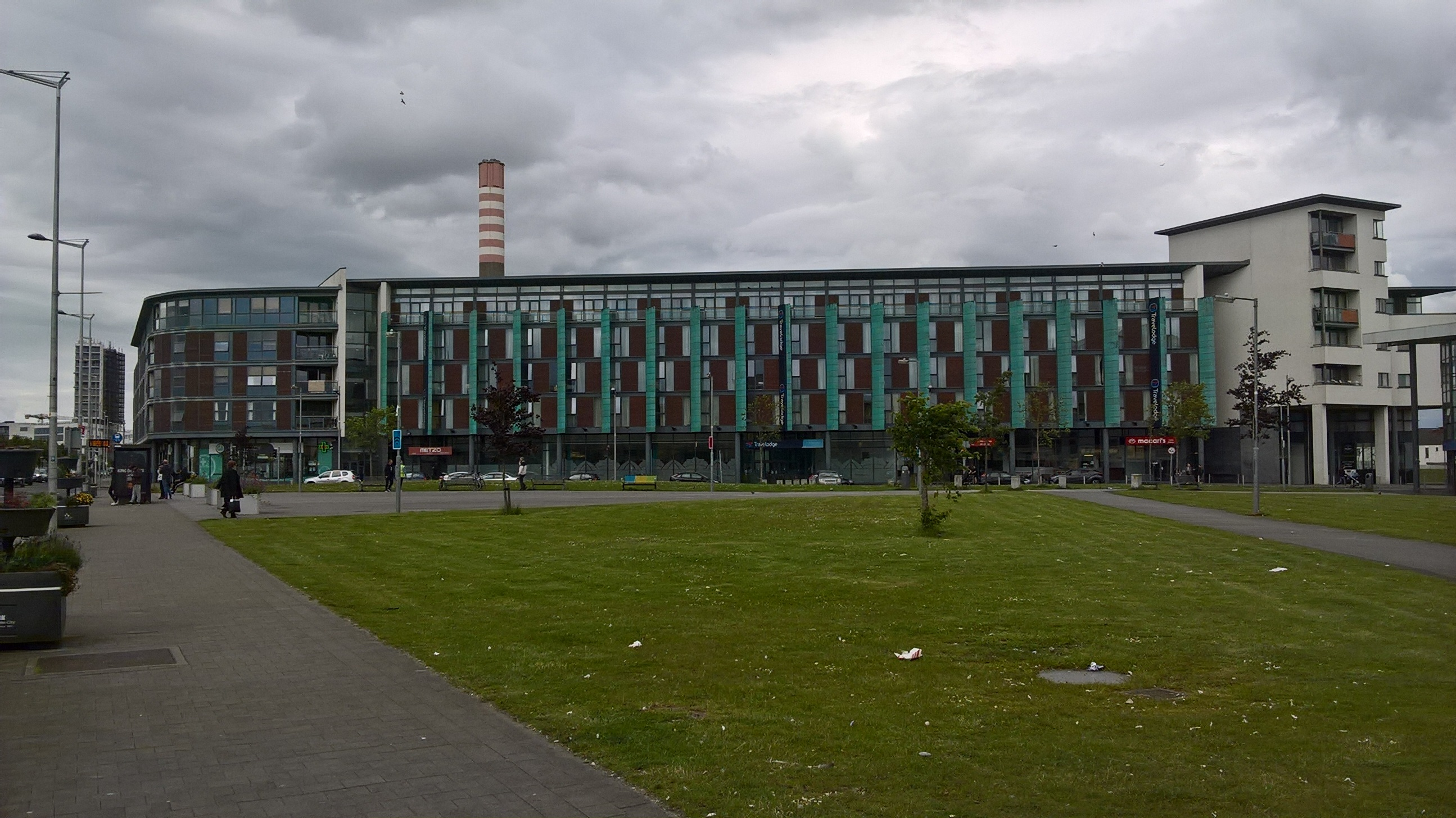 Ballymun Town Centre.